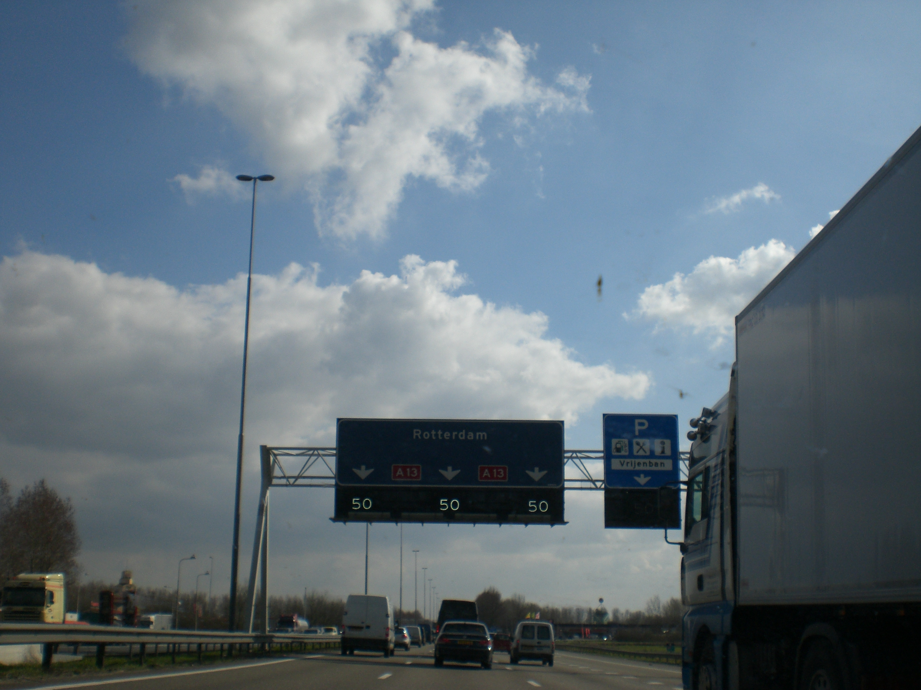 The A13-Motorway between the dutch cities Rotterdam and Delft